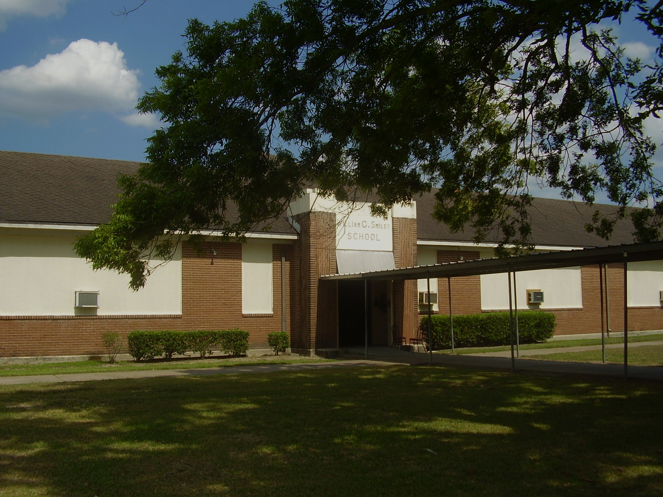 William G. Smiley School - Once served as the W. G. Smiley Career and Technology Center